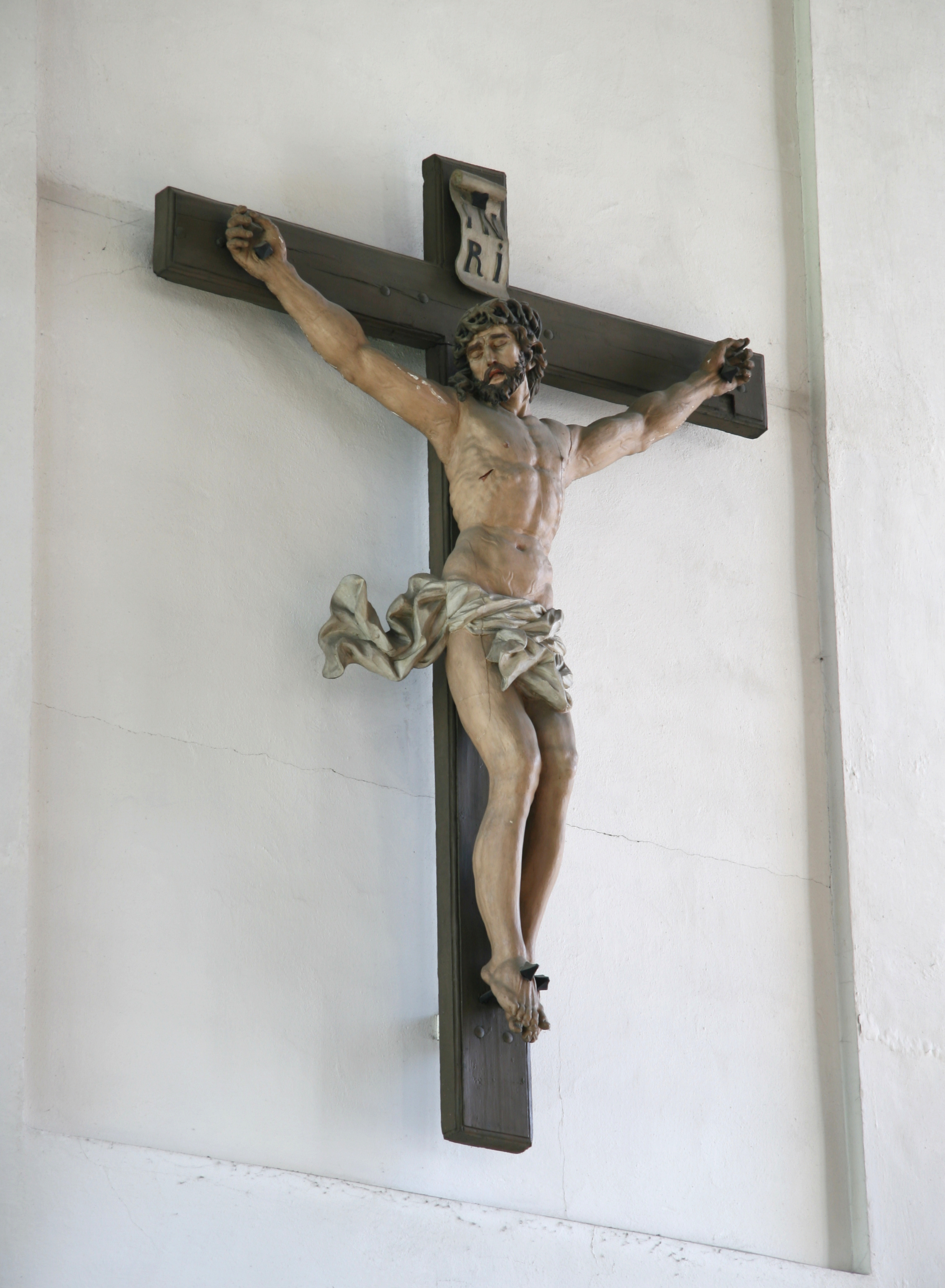 Vor Frelser Kirke (Church of Our Saviour), Copenhagen, Denmark. Crucifix